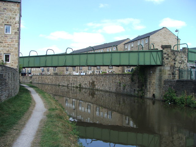 Leeds and Liverpool Canal at Skipton. This footbridge joins the New Town and Middle Town districts of Skipton. Looking N.